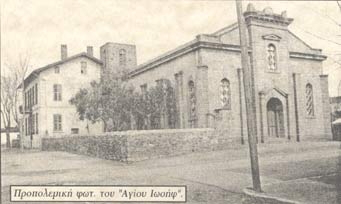 Catholic Church of Dedeagatch, today Alexandroupoli, Greece, built 1896-1901